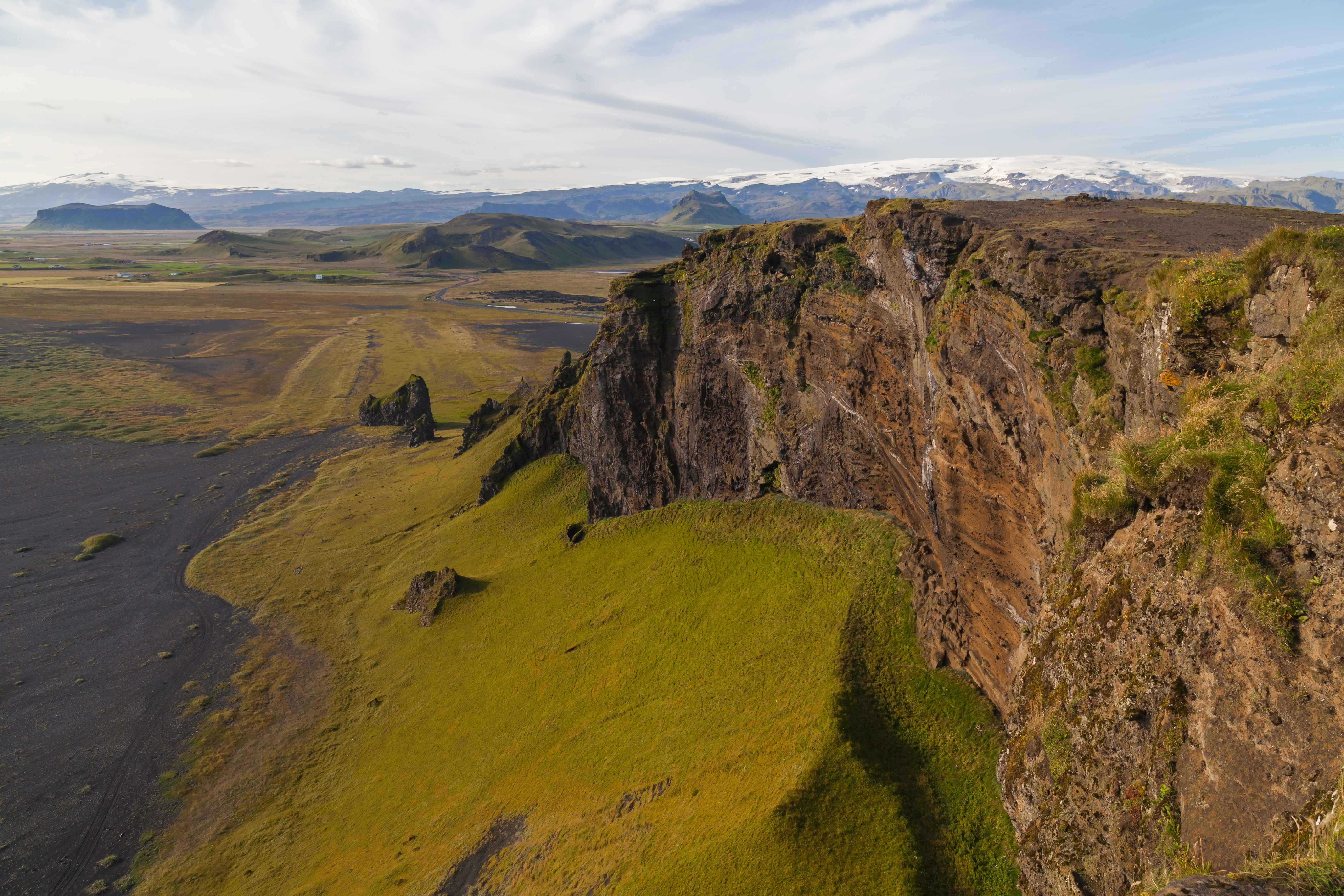 Dyrhólaey, Suðurland, Iceland